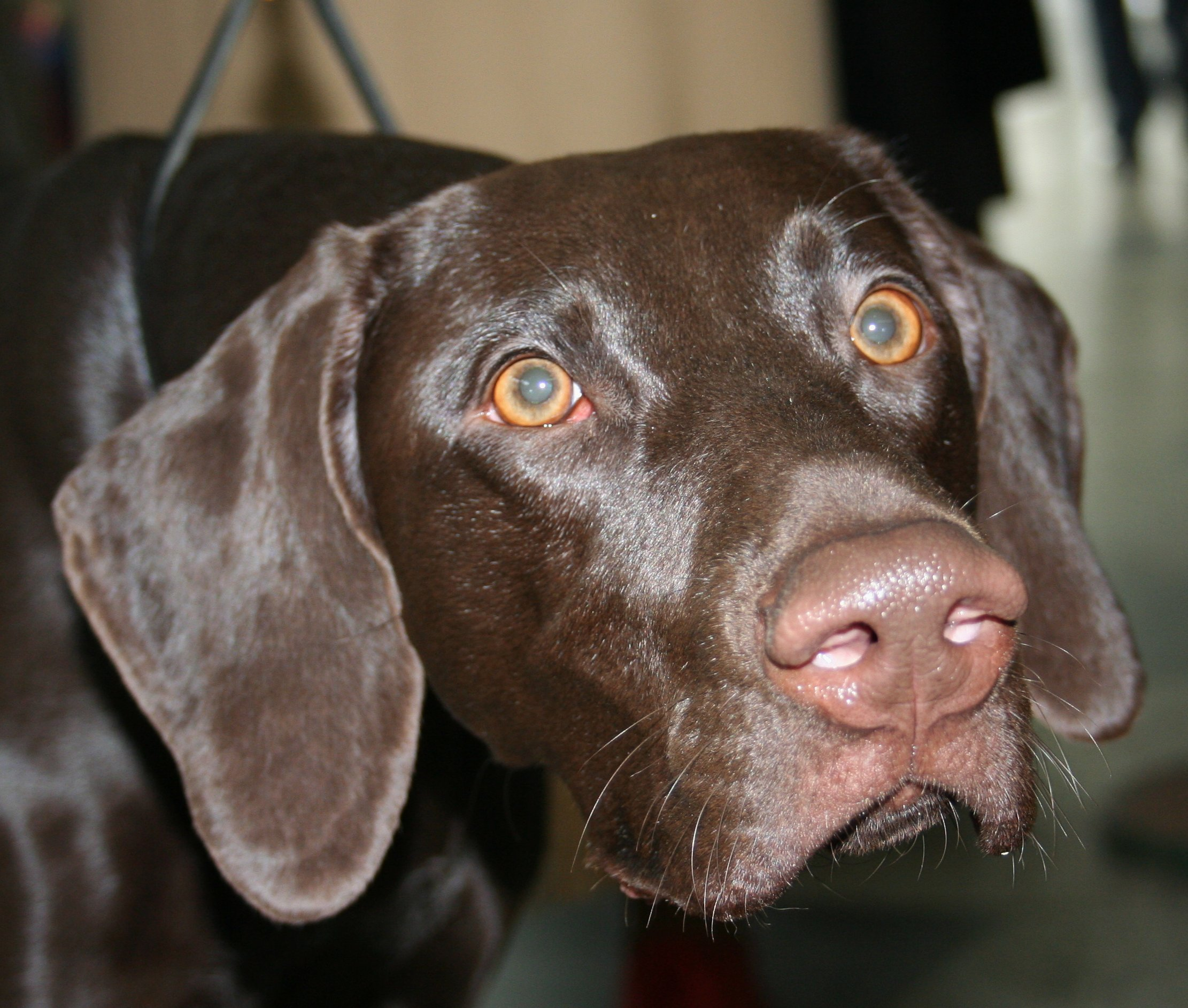 German Short - haired Pointing Dog during dogs show in Katowice, Poland